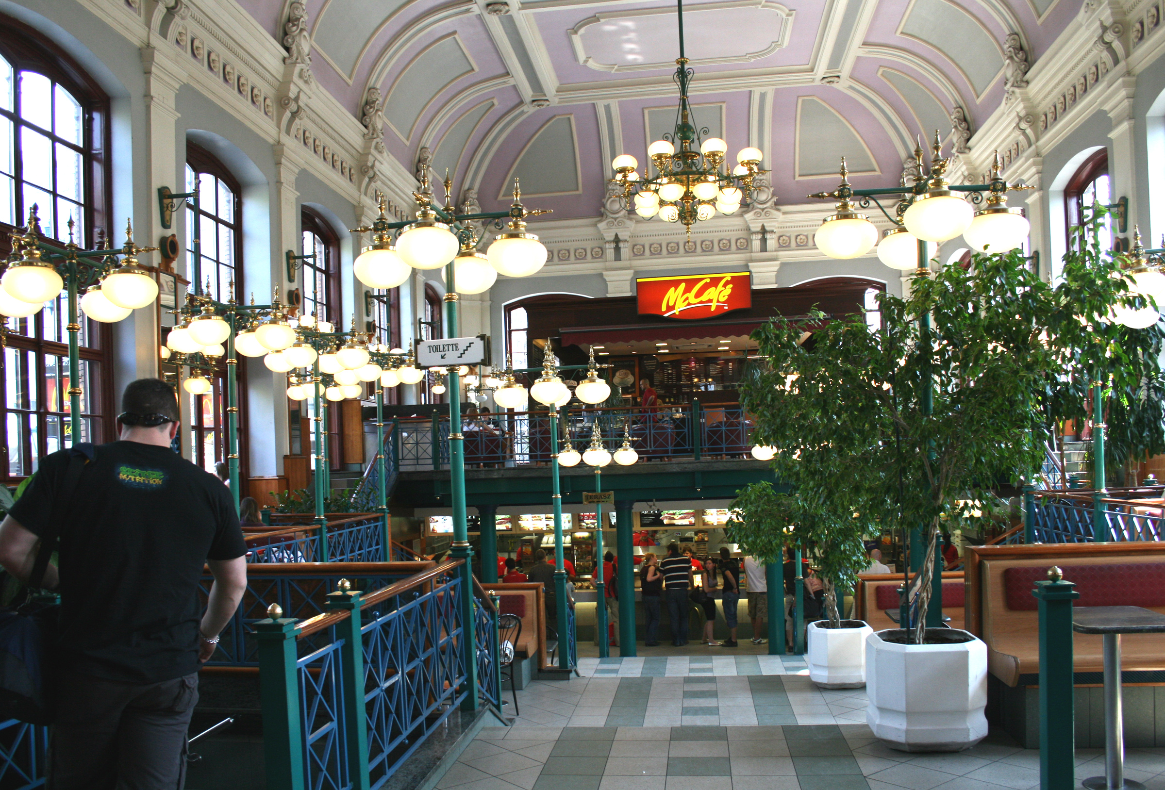 Interior of McDonald's restaurant in Budapest, Hungary